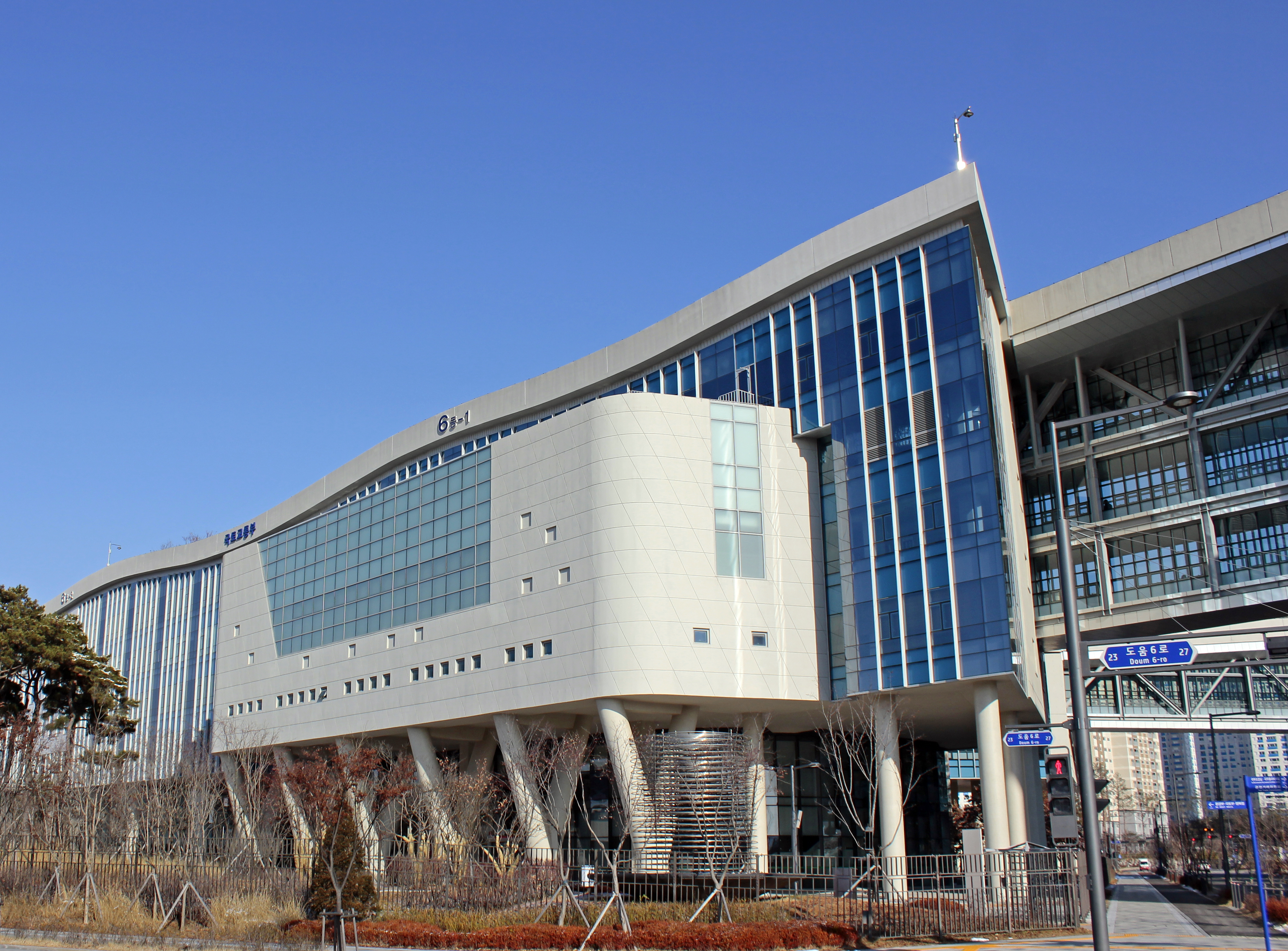 Ministry of Land, Infrastructure, and Transport (MOLIT) headquarters at Government Complex Sejong #6